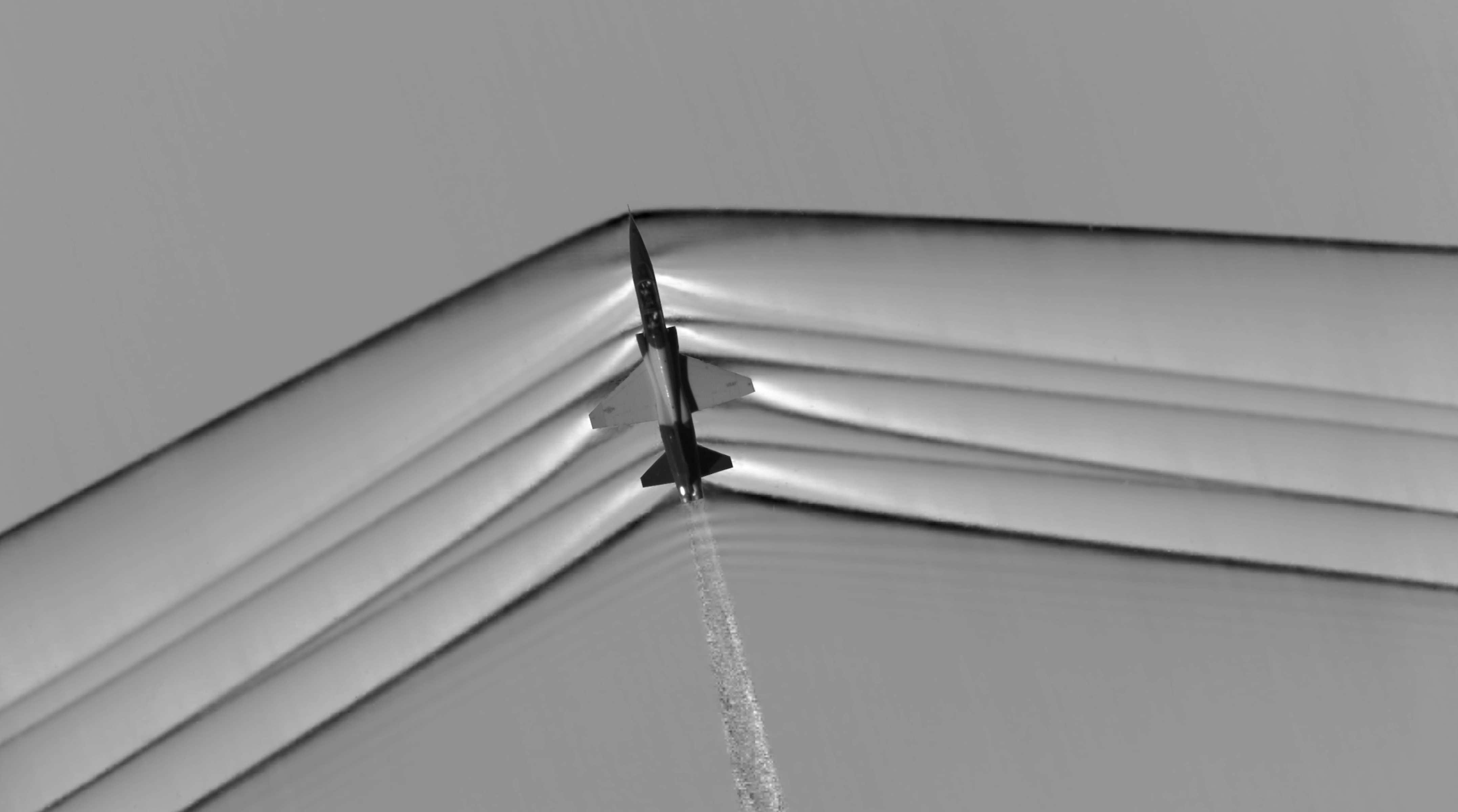 Air-to-air photography of a Northrop T-38 Talon in supersonic flight over the Mojave Desert reveals air density changes caused by flow regime transition around the aircraft, and the turbulent exhaust of the aircraft’s jet engines.This photo was acquired using a technique named Air-to-air Background-Oriented Schlieren (AirBOS). The process involves imaging with a high-speed camera mounted on the bottom of a Beechcraft B-200 King Air aircraft while the T-38C passes underneath. The pattern formed by the desert ground underneath the aircraft is filmed separately, and then removed digitally from the captured images during post-processing. This reveals the distortions created by the shockwaves, which result from the change in the air’s refractive index caused by density changes.